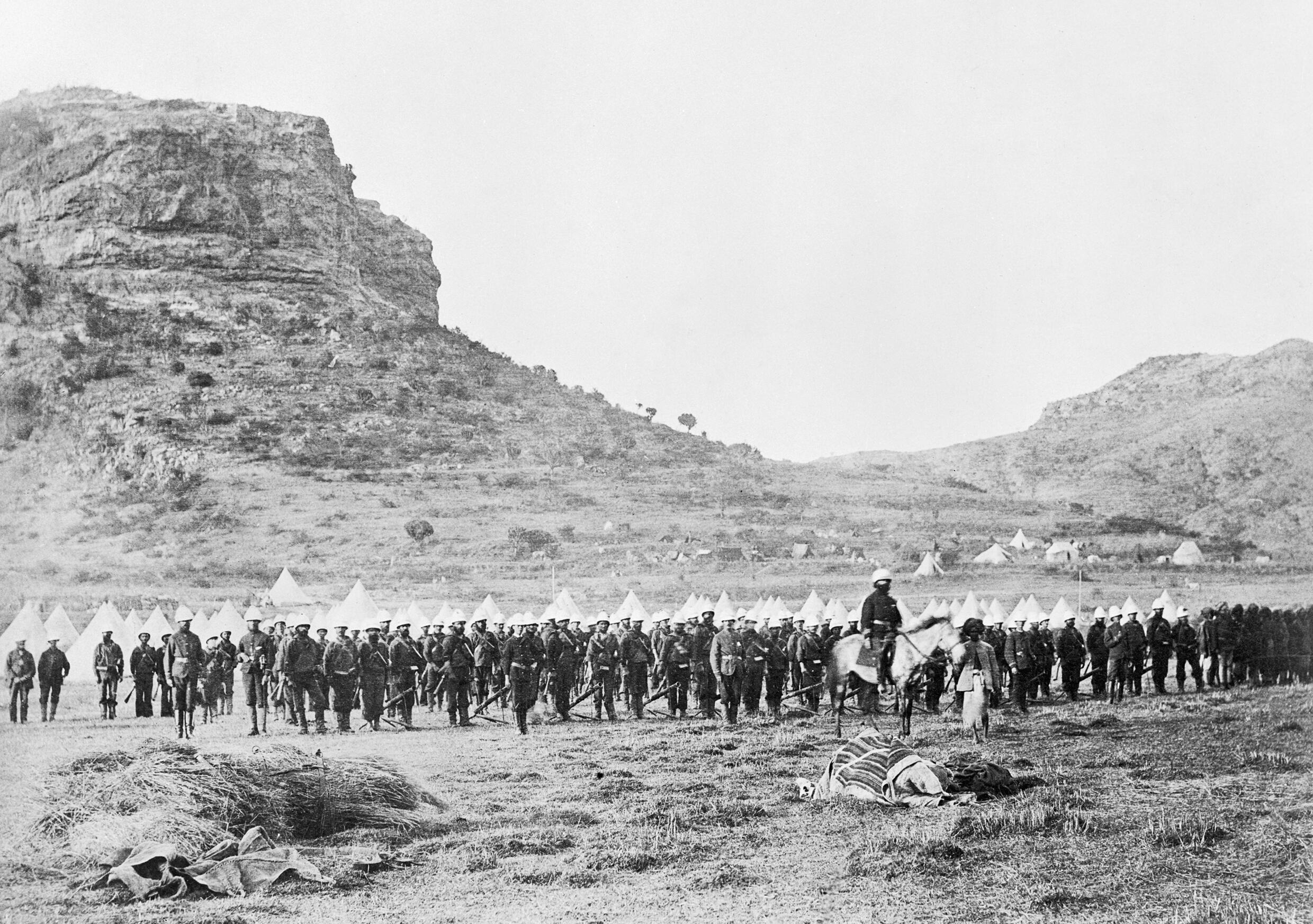 The Abyssinian Expedition, Ethiopia 1868 The Naval Brigade parade beside Goon-Goona Rock.